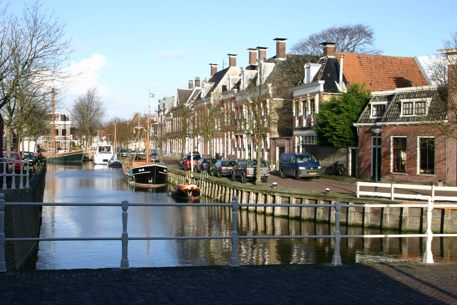 Canal houses